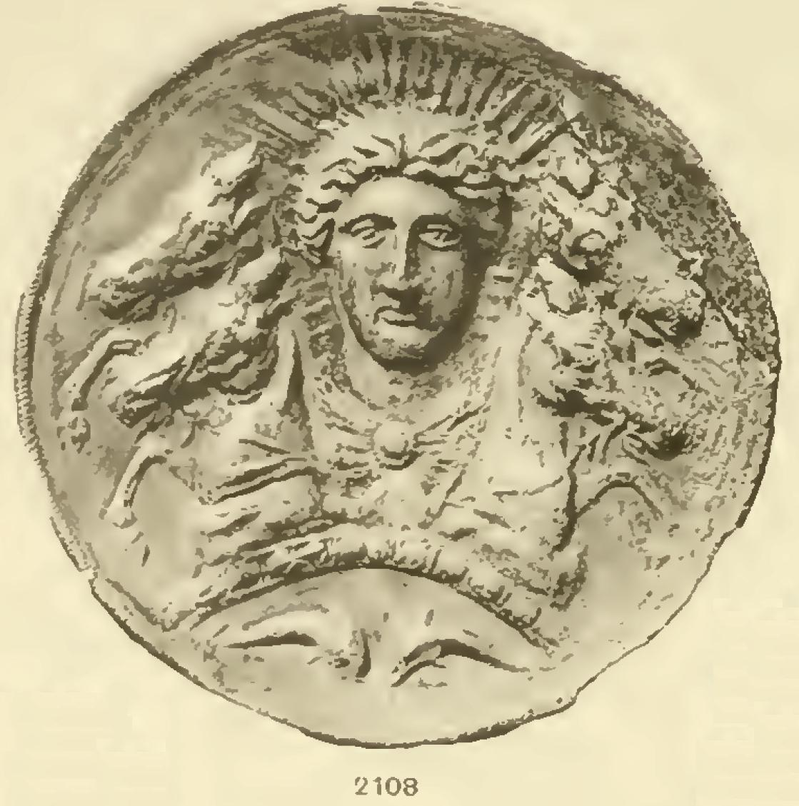 God Helios